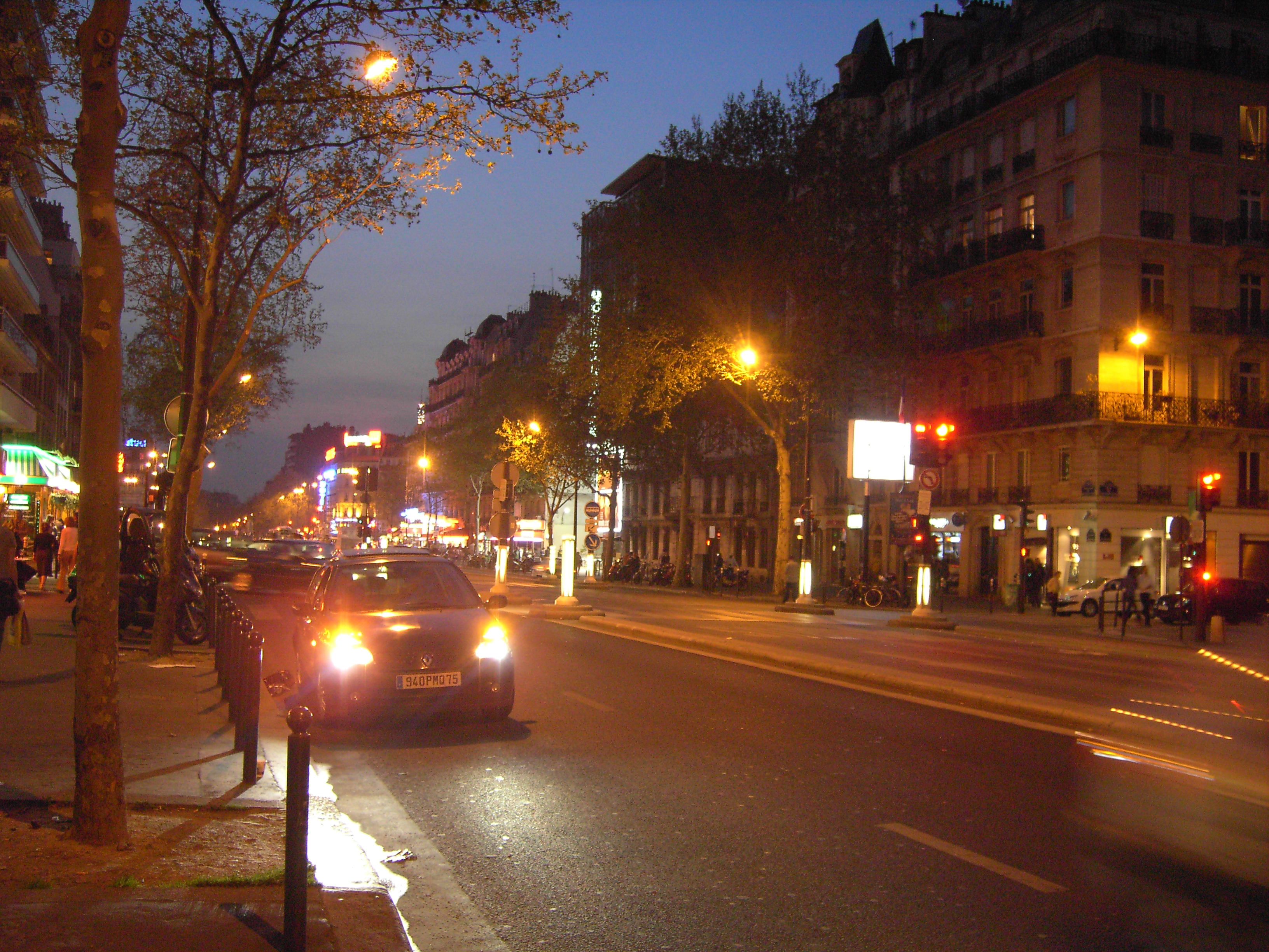 Montparnasse in the evening